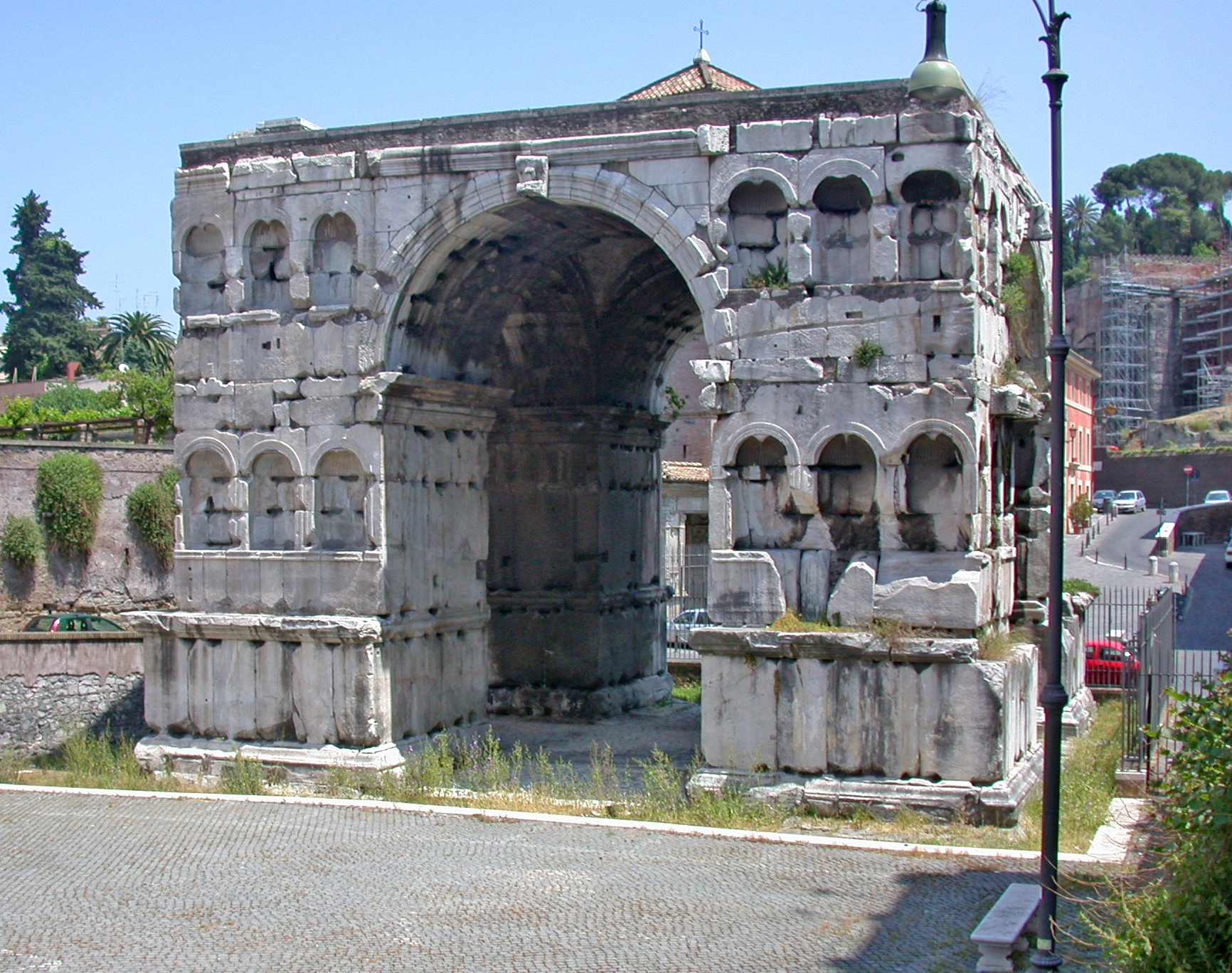 Rome. Arch of Janus in the Foro Boario. Facade towards the Tevere river. Through the arch, the porch of the church of Saint George in Velabro is seen.